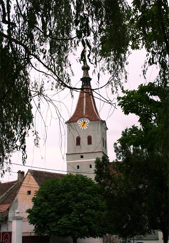 Old saxon church in Rasnov.